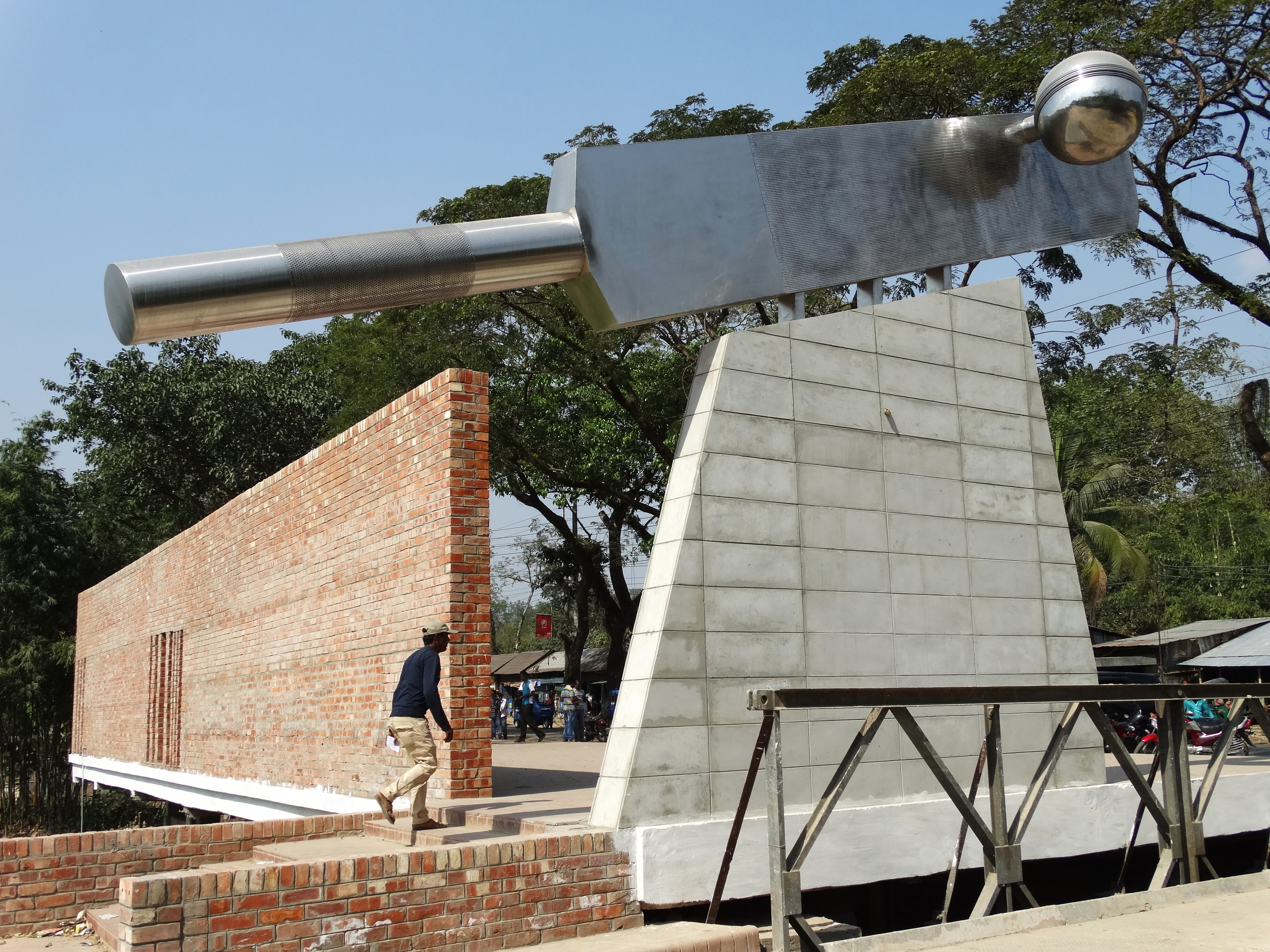 Sculpture of cricket bat outside Sylhet International Cricket Stadium